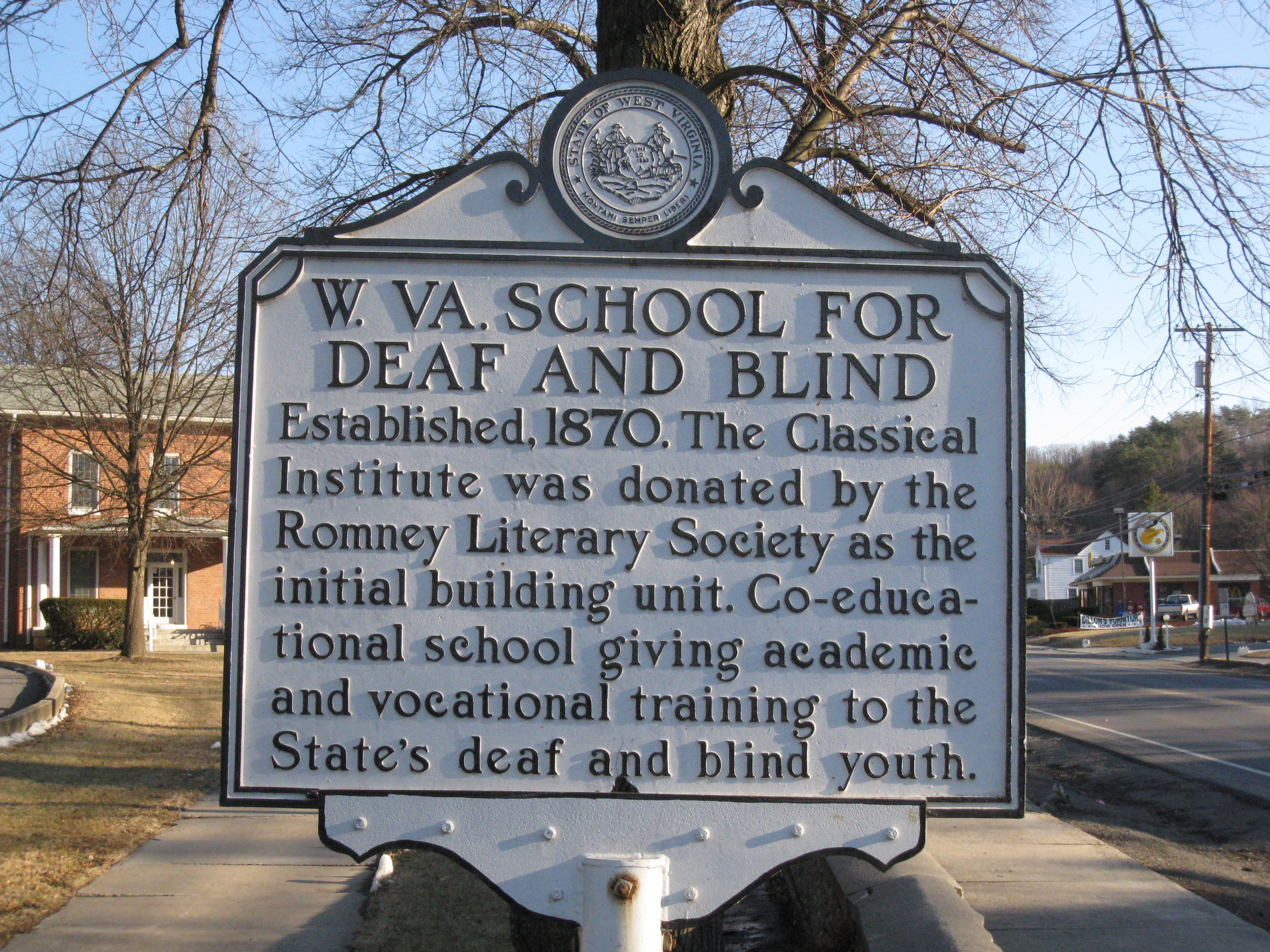 West Virginia Schools for the Deaf and Blind Administration Building (formerly Romney Classical Institute, built 1846), historical marker, in Romney, West Virginia, United States.